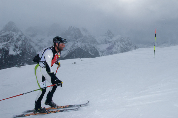 Guido Giacomelli at the 2nd Palaronda SkiAlp, 2010